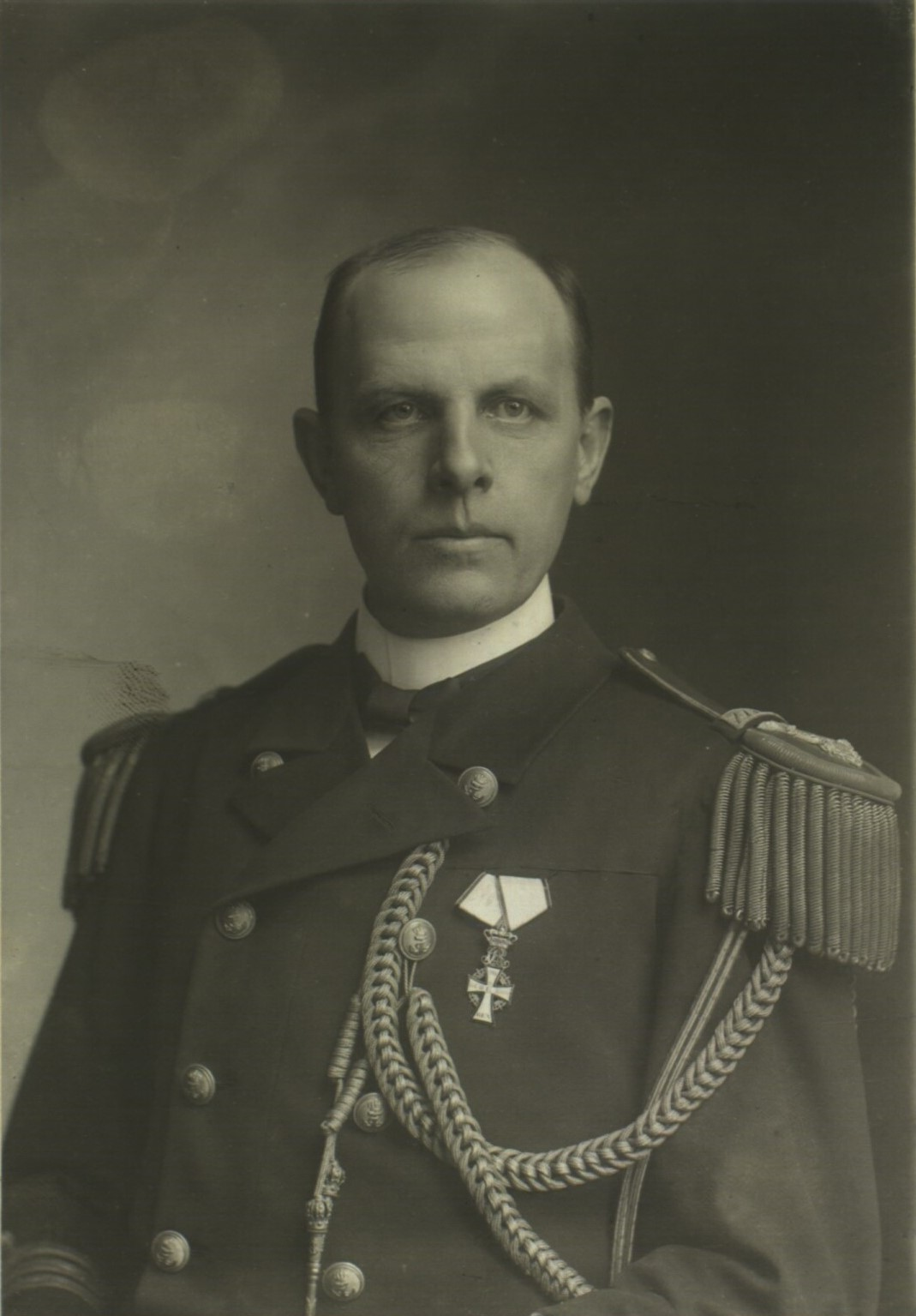 Christian Magdalus Thestrup Cold (1863-1934), Danish naval officer, CEO of D.F.D.S., Foreign Minister, and governor of the Danish West Indies (1905-08)